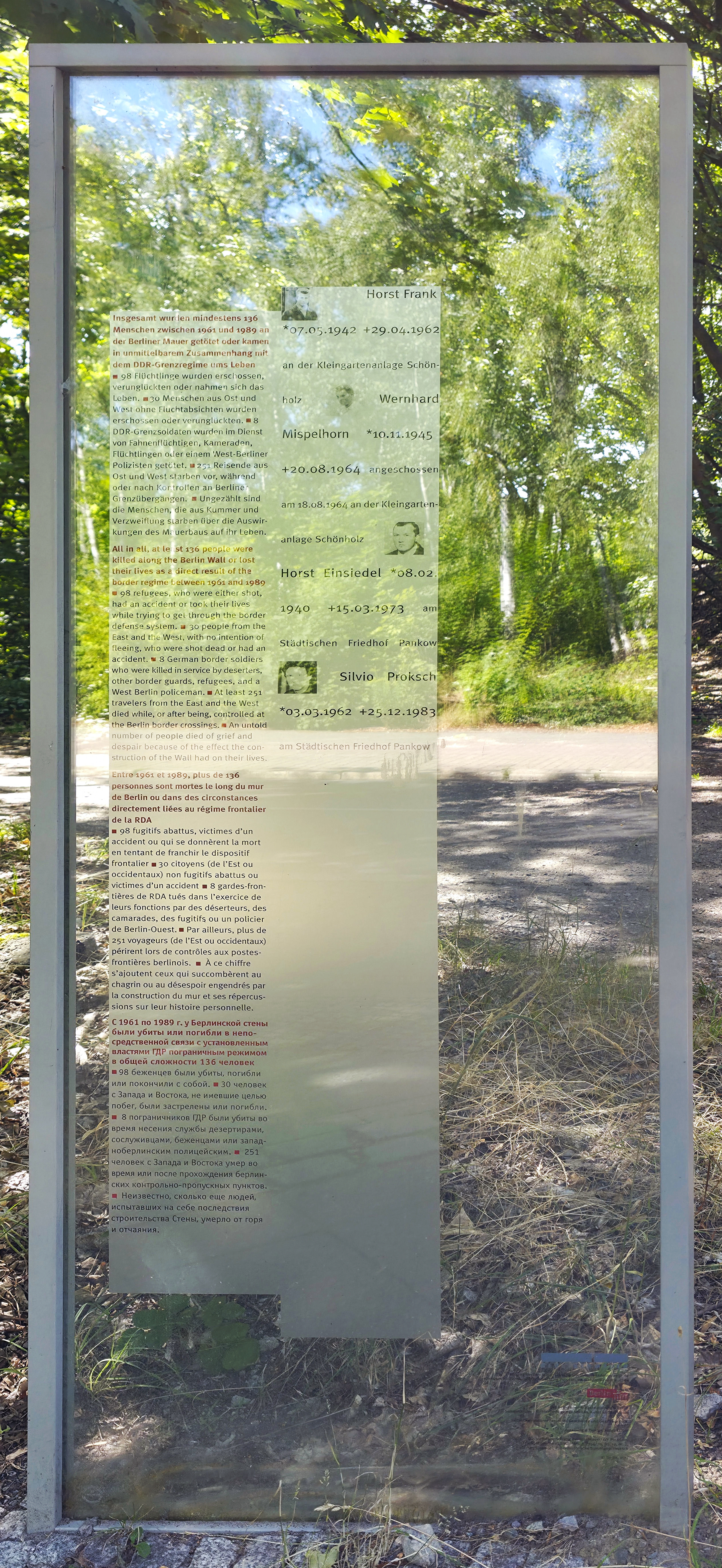 Memorial plaque, Horst Frank, Wernhard Mispelhorn, Horst Einsiedel und Silvio Proksch, Klemkestraße, Berlin-Reinickendorf, Deutschland